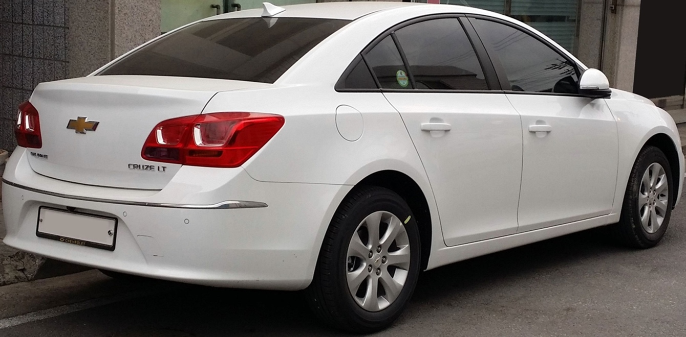 Chevrolet Cruze